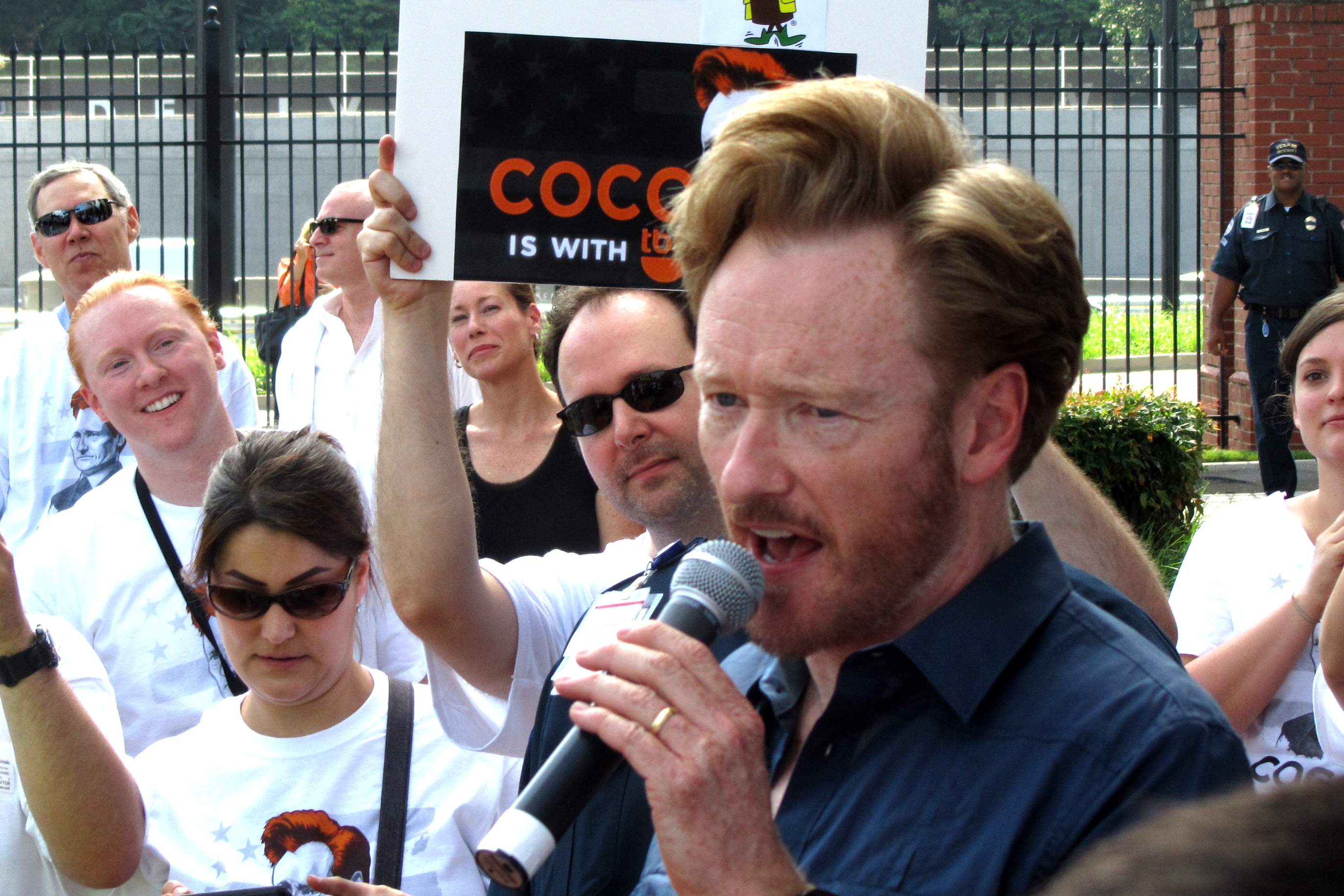 The welcoming party for Coco at TBS (Conan O'Brien). It was hot and he was awesome!